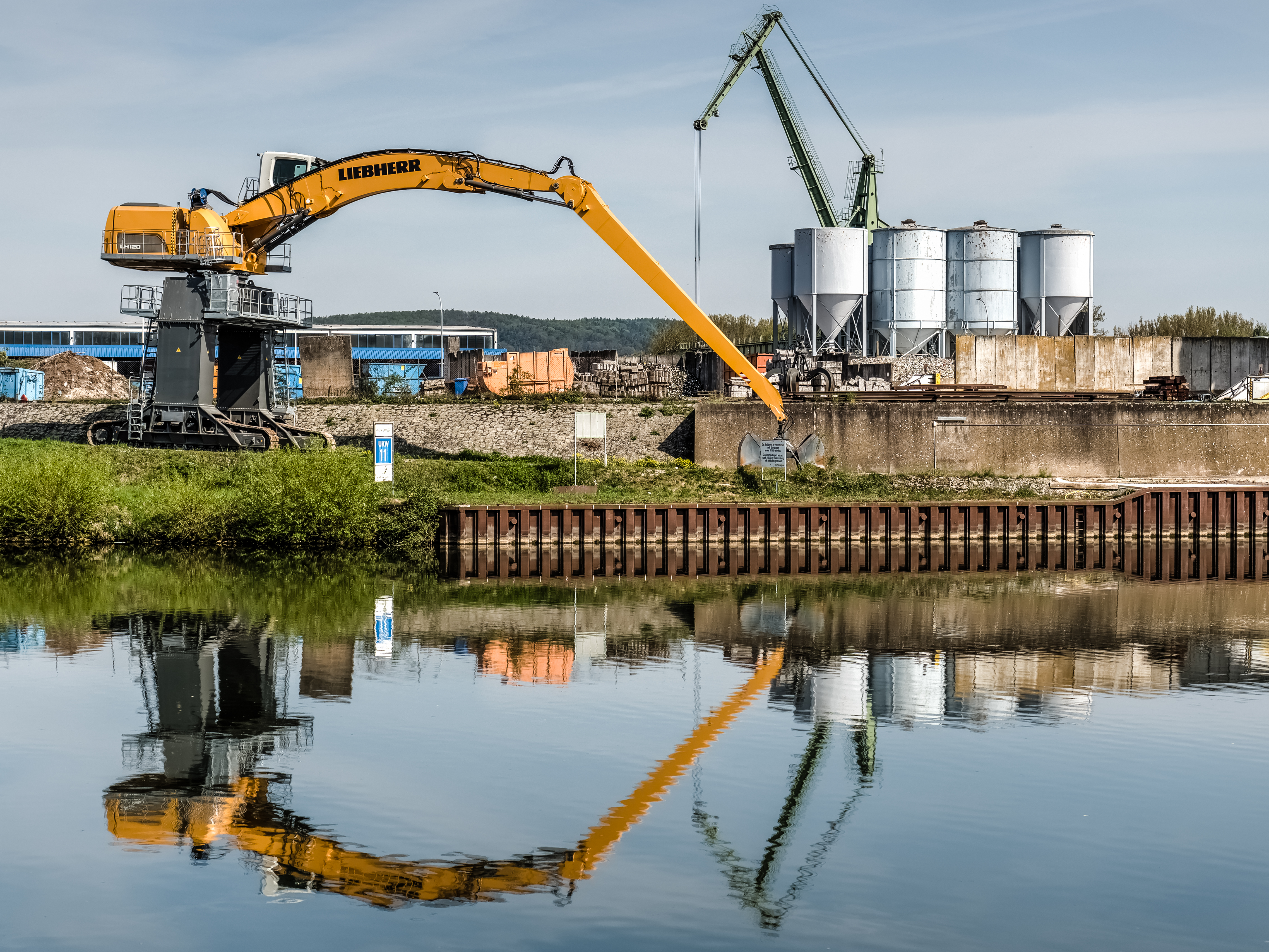 Liebherr material handling machine LH 120 C in the port of Bamberg